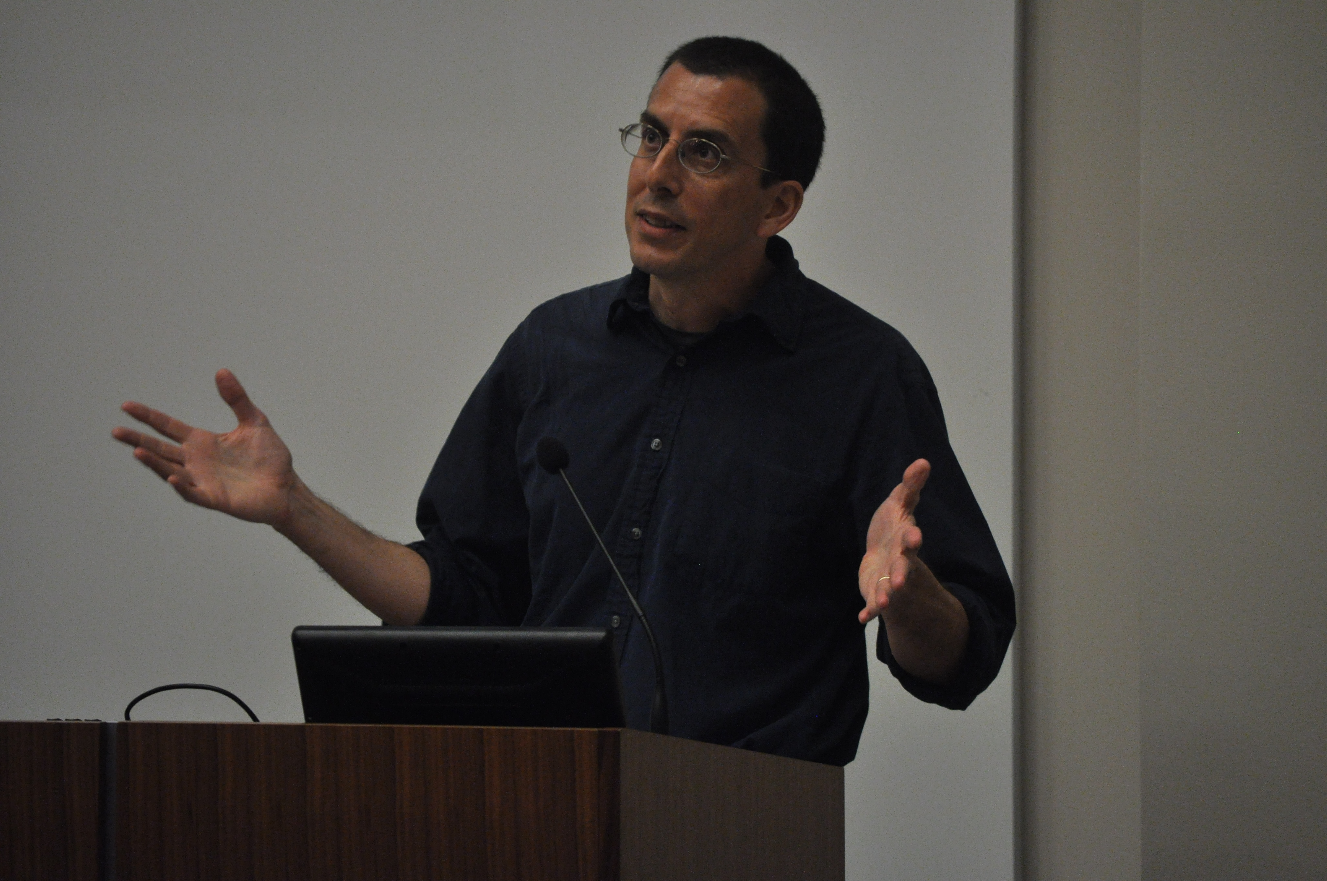 Carlo Rotella, director of American Studies at Boston College (and author of Cut Time, Good With Their Hands and October Cities) at the 2012 Pop Conference, at NYU.